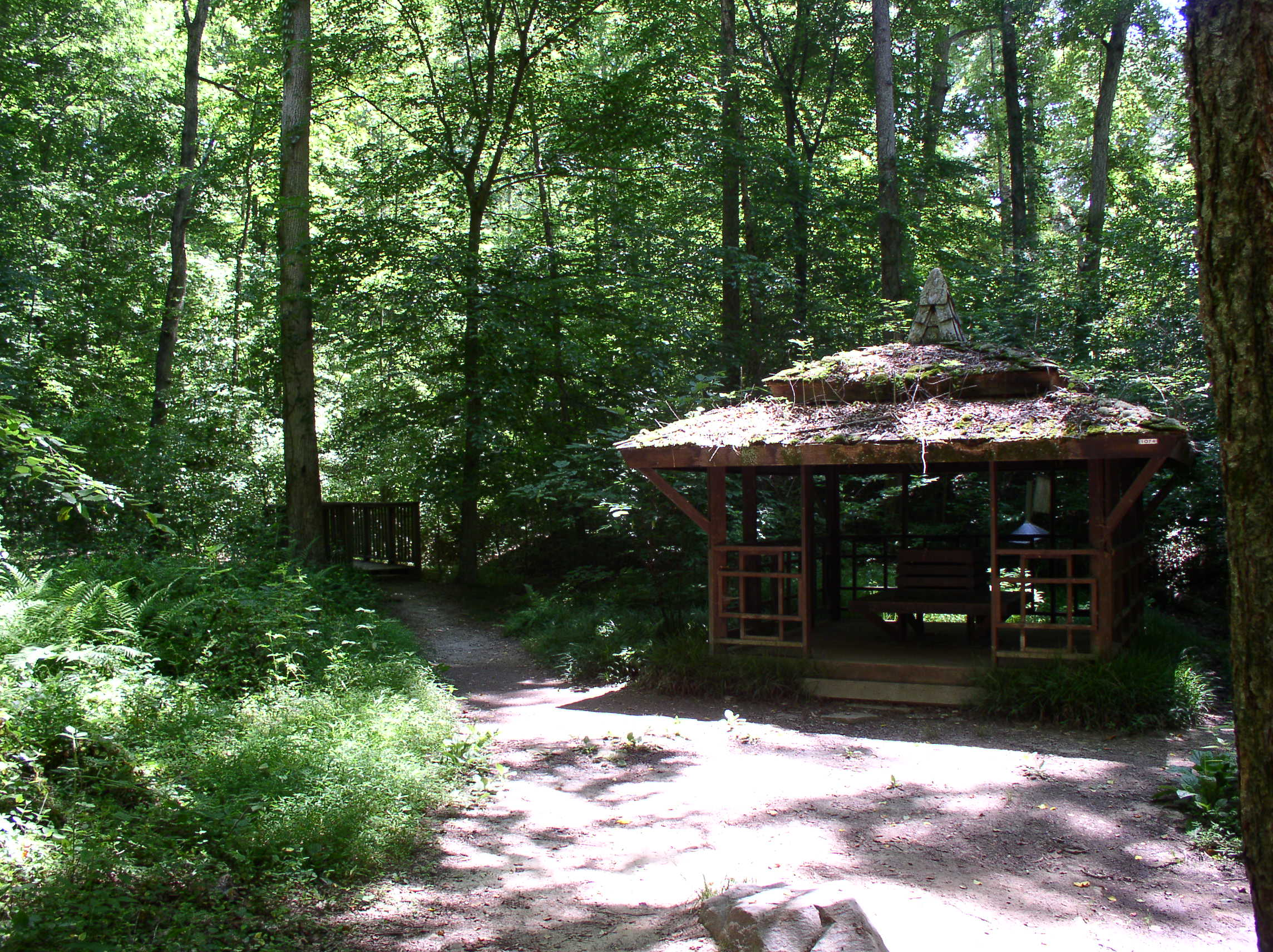 Meditation Garden in the South Carolina Botanical Garden